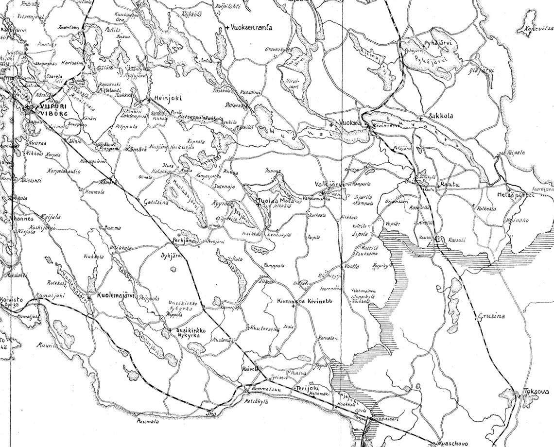 1920s Map of the Karelian Isthmus.